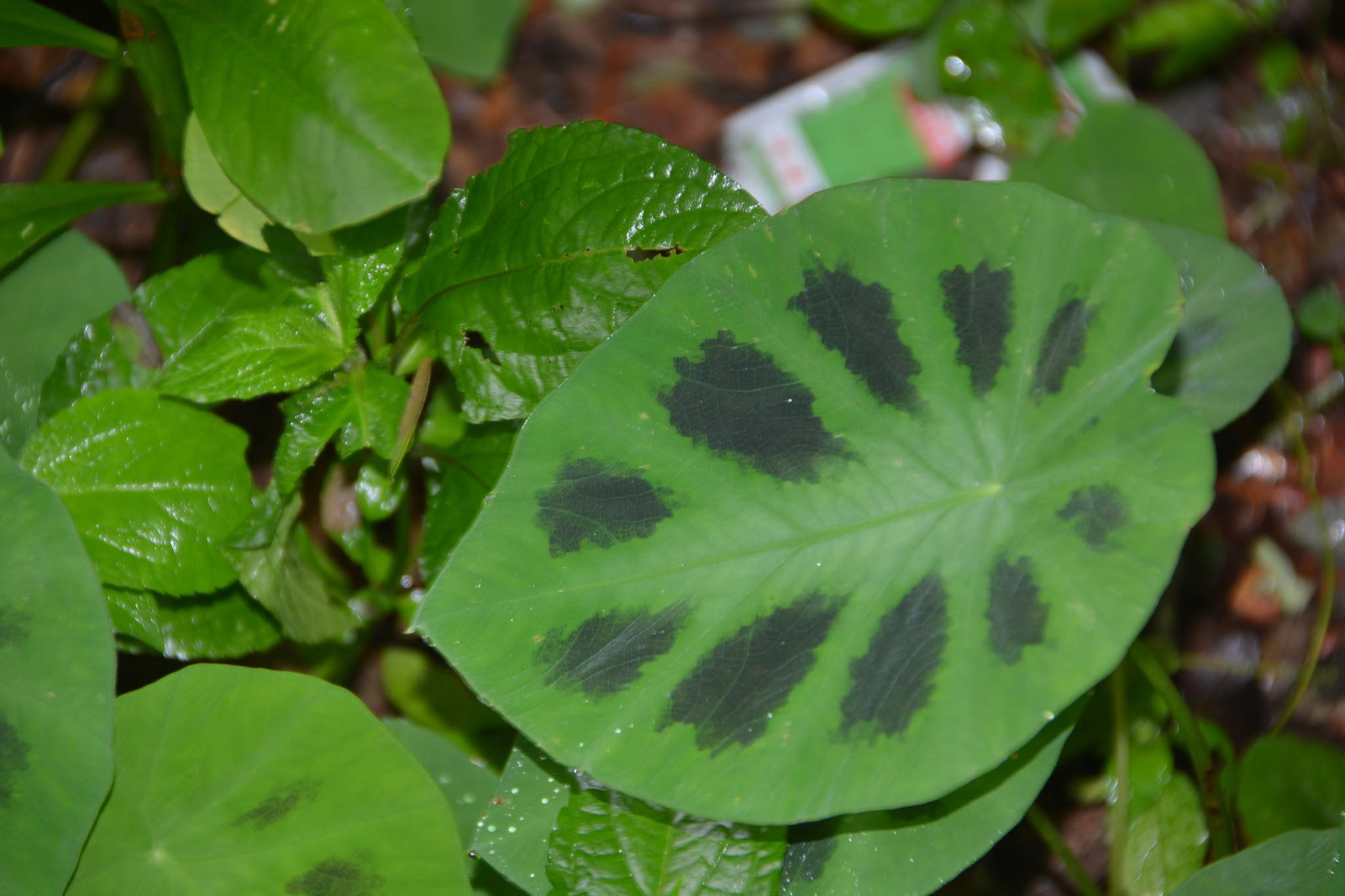 Plant